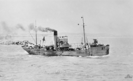 Starboard side view of the Auxillary minesweeper HMAS Beryl II (BT).